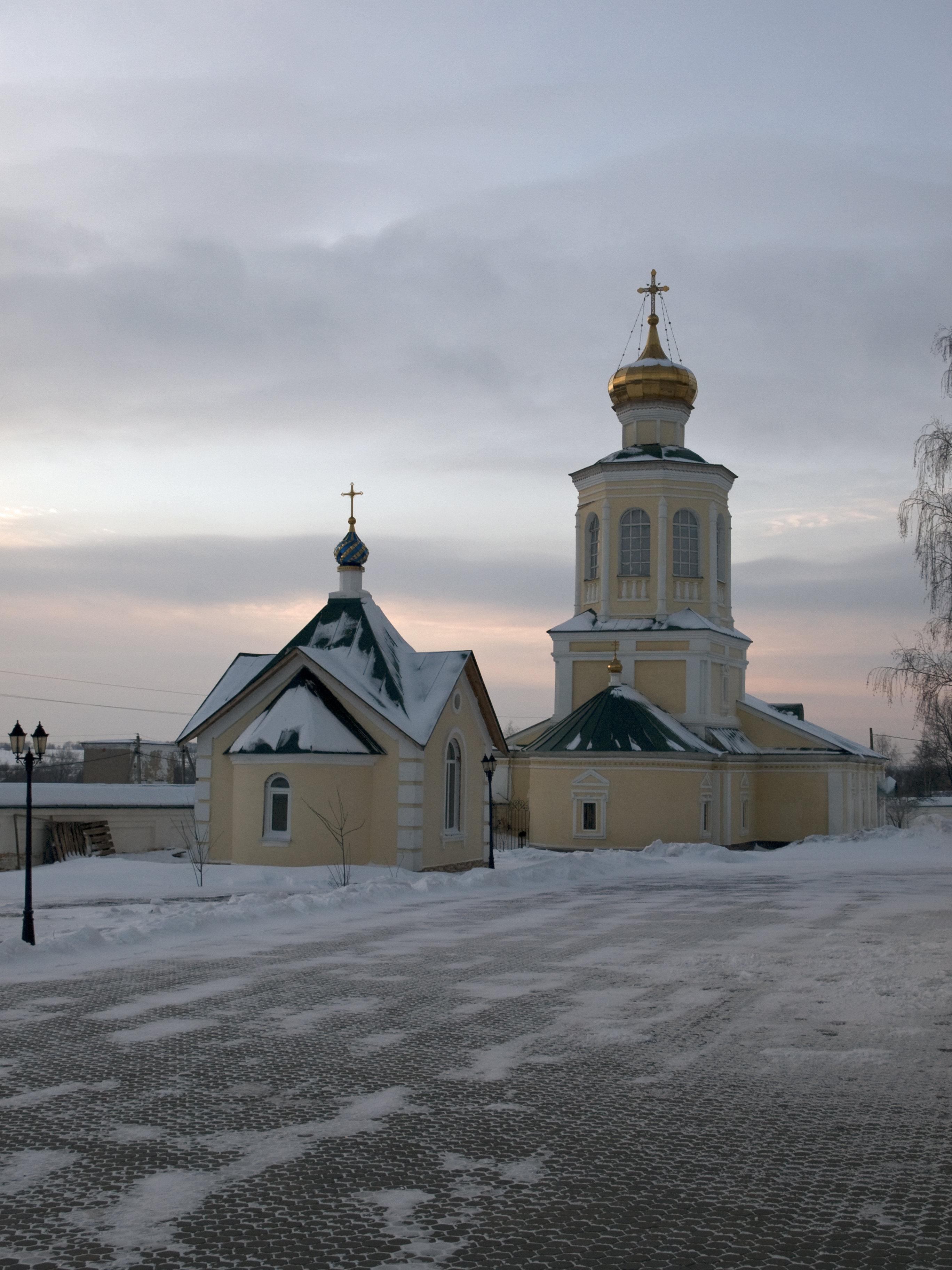 Church of Archangel Michael (1702), Monastery of John the Evangelist in Makarovka